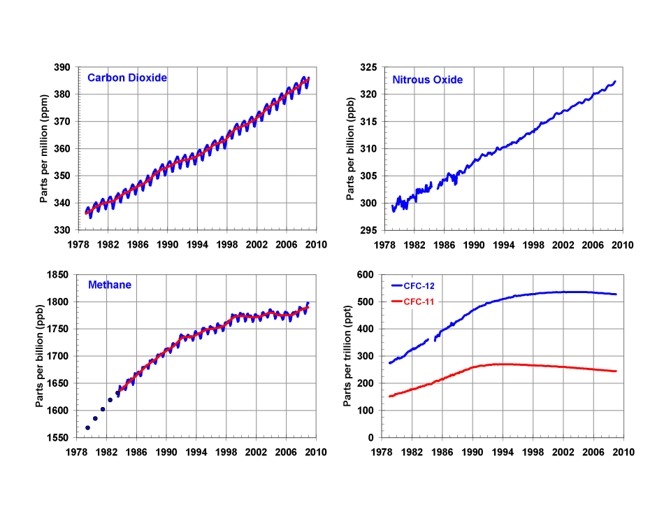 The graphs show the average mole fraction (or concentration) of these trace gases in the global atmosphere over time. These global averages are derived from flask measurements at multiple remote sites throughout the world including the Mauna Loa Observatory in Hawaii.